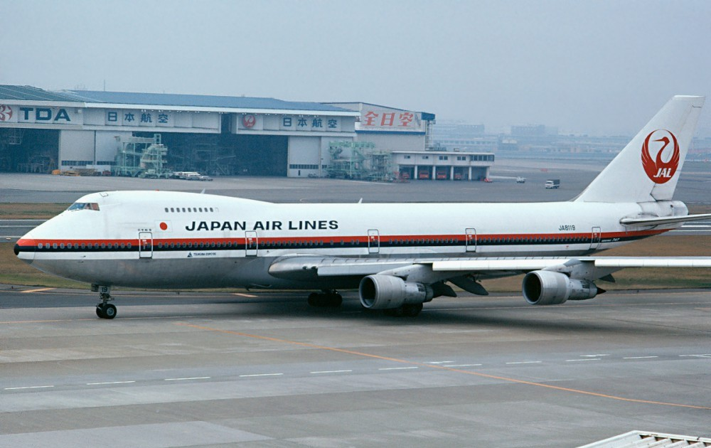 JA8119, the aircraft envolved in the accident on August 12th, 1985, killing 520 people.